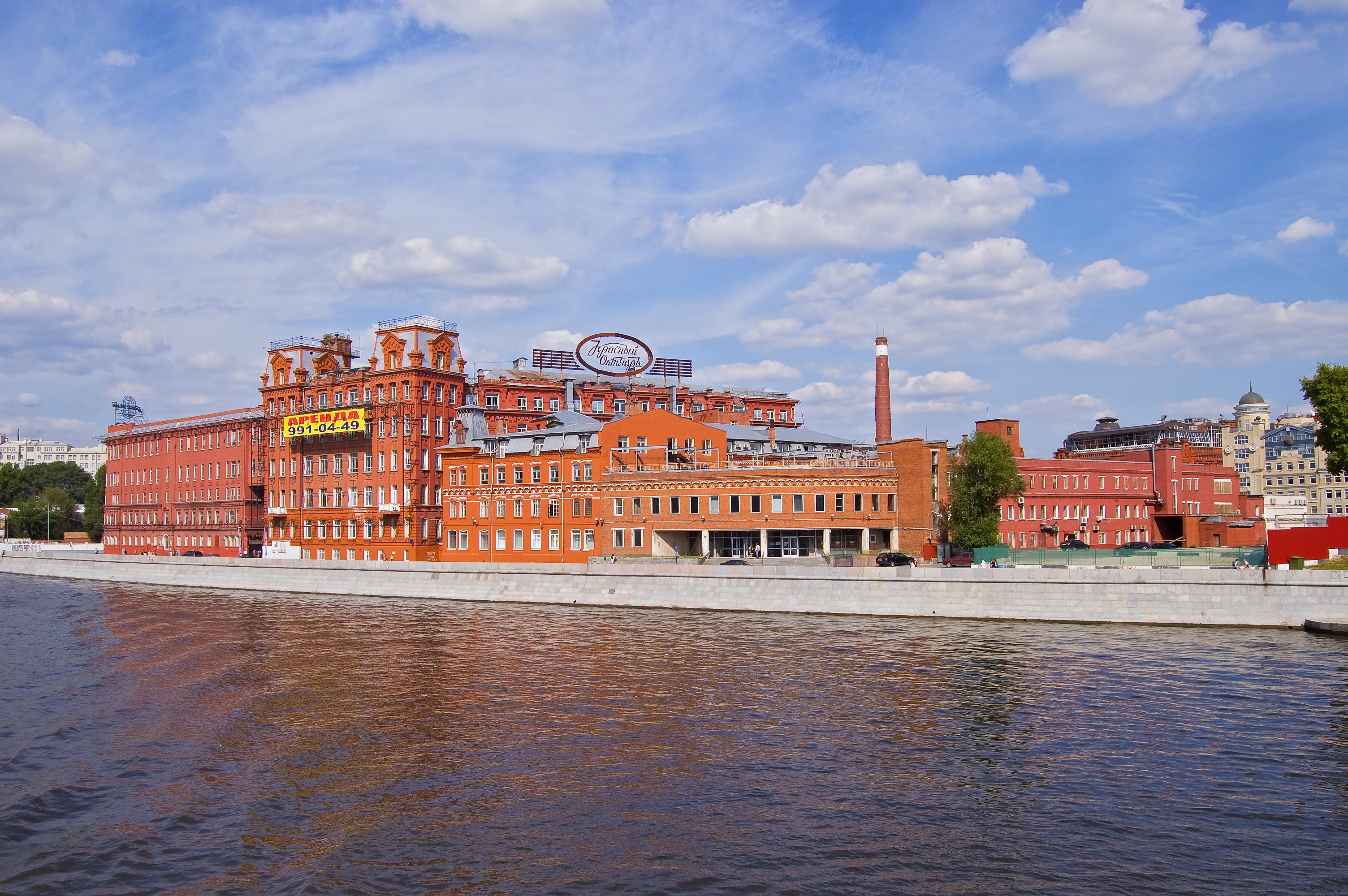 Здание кондитерской фабрики «Красный Октябрь» на Берсеневской набережной.